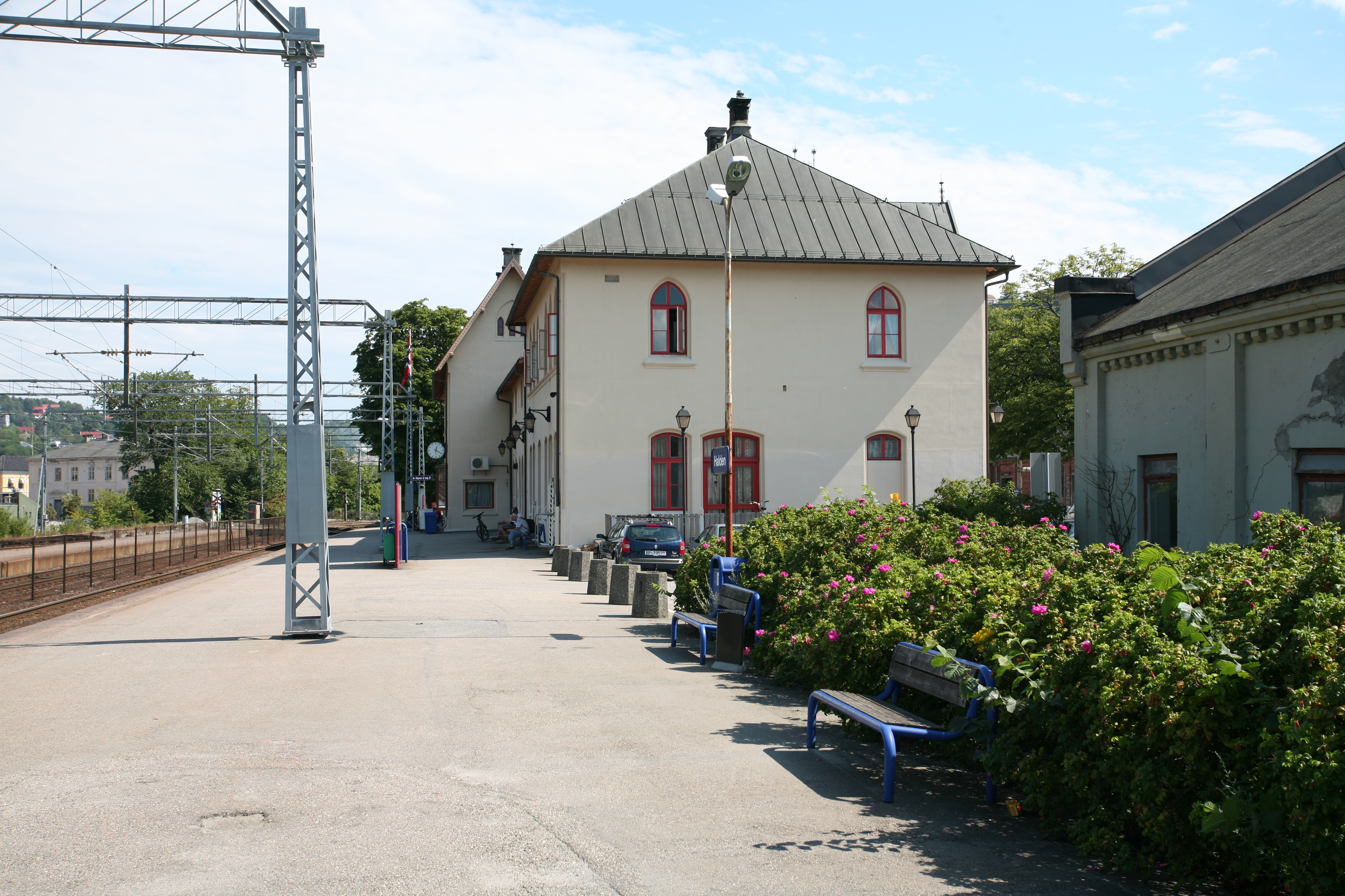 Picture of Halden Railway Station (Norway)